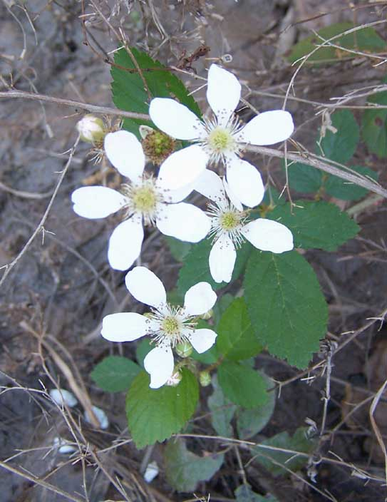 Taken by DanielCD in March 2006 near Houston, Texas. These are dewberry flowers (genus Rubus). Date on the camera is wrong.